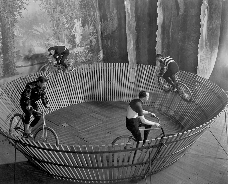 A bicycle track, only described as "Keith's Bicycle Track."